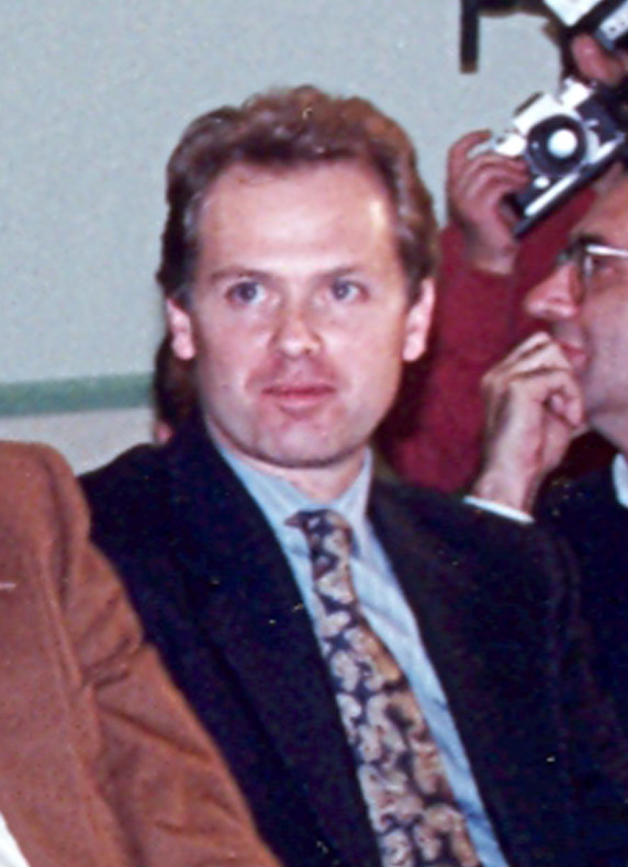 Jornadas Perspectivas